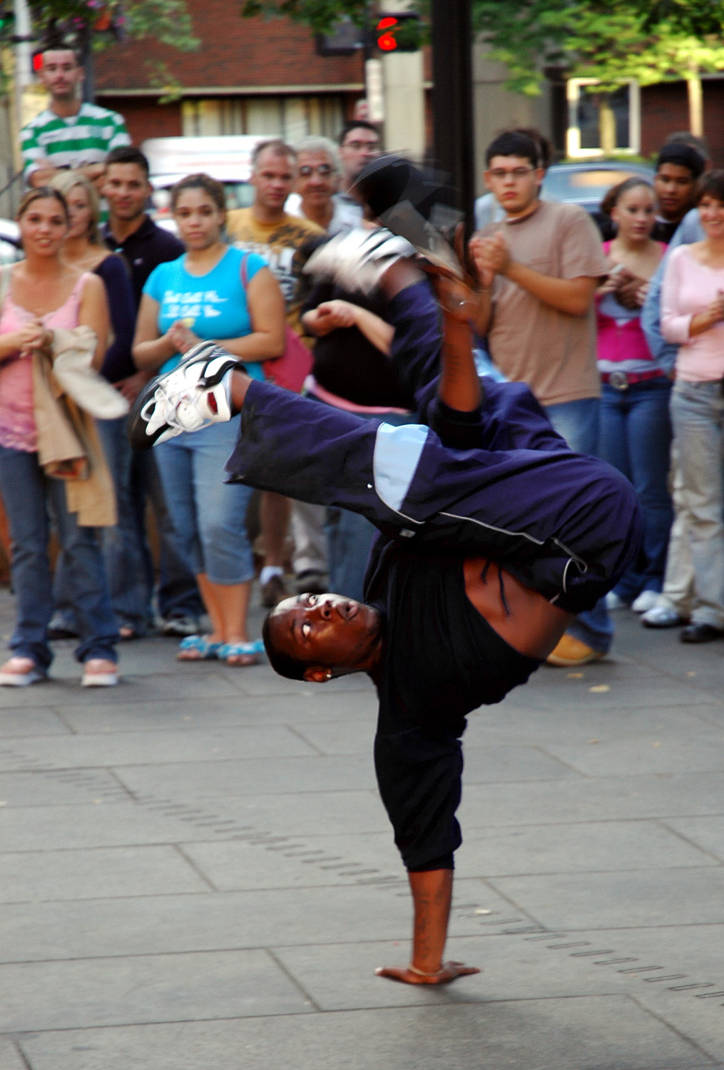 Breakdancer. Out 'n about in Faneuil Hall, Sunday, September 11, 2005